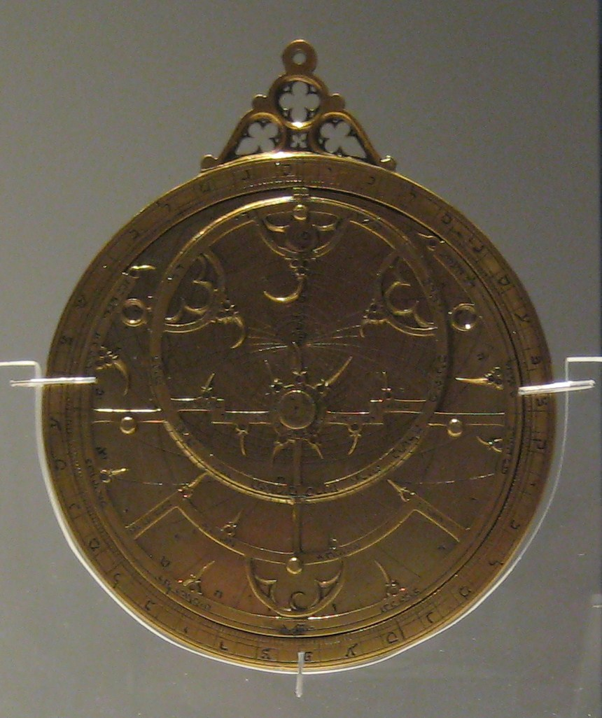 Hebrew astrolabe, probably Spain, about AD 1345 - 1355